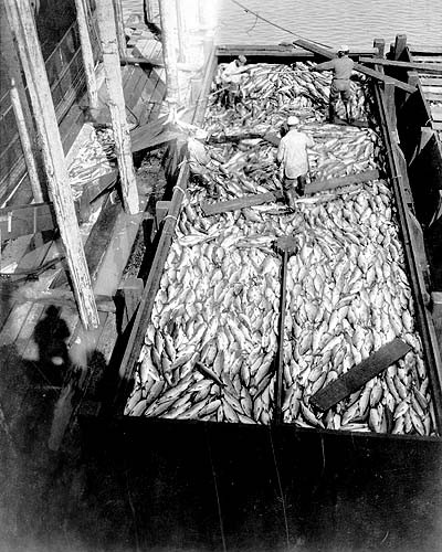 From John Cobb field notebook: F.W. cannery; fish scows alongside elevators. 1918 Subjects (LCTGM): Canneries--Alaska--Wrangell; Salmon--Alaska--Wrangell Subjects (LCSH): Alaska Packers Association; Salmon canning industry--Alaska--Wrangell; Scows--Alaska--Wrangell